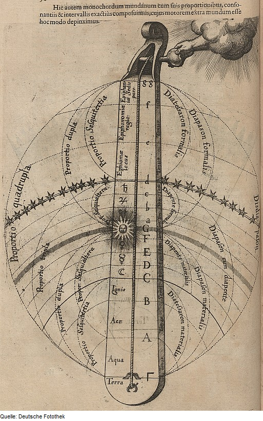 Original image description from the Deutsche Fotothek Theosophie & Philosophie & Sonifikation & Musik & Musikinstrument